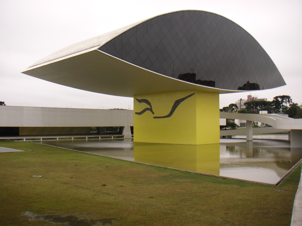 The Museu Oscar Niemeyer in Curitiba from 2002. Not surprisingly, this building is called 'the eye'.